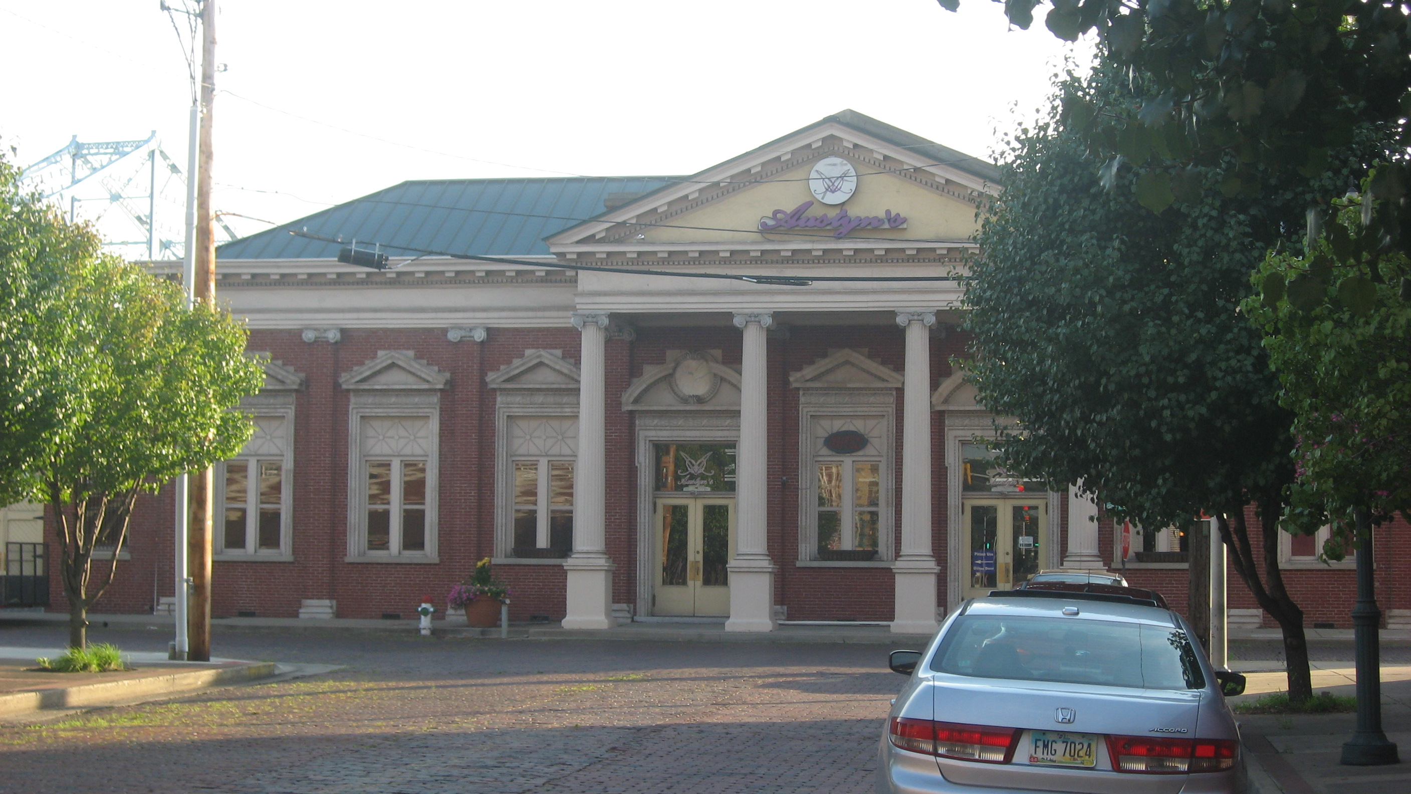 Front of the former Ironton Norfolk and Western Depot (now Austyn's Restaurant), located on Bobby Bare Boulevard at the foot of Park Avenue in Ironton, Ohio, United States. Built in 1907, it is listed on the National Register of Historic Places, and it is part of a Register-listed historic district, the Downtown Ironton Historic District.